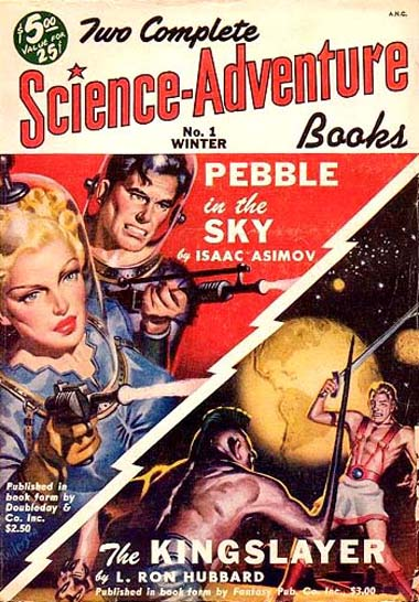 Cover, Two Complete Science Adventure Books, Winter 1950